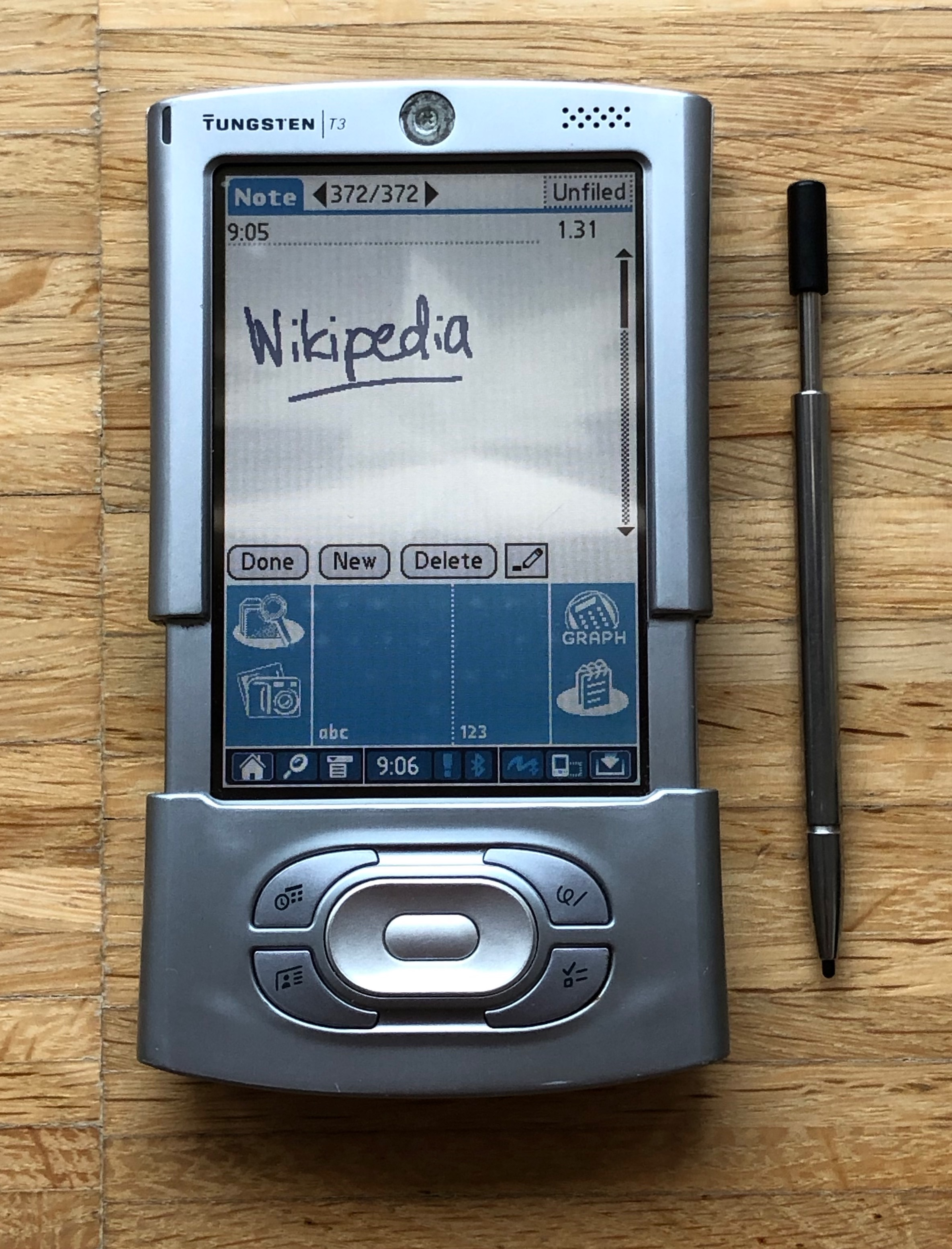 Palm Tungsten T3 slided out and turned on showing PalmOS Notes application